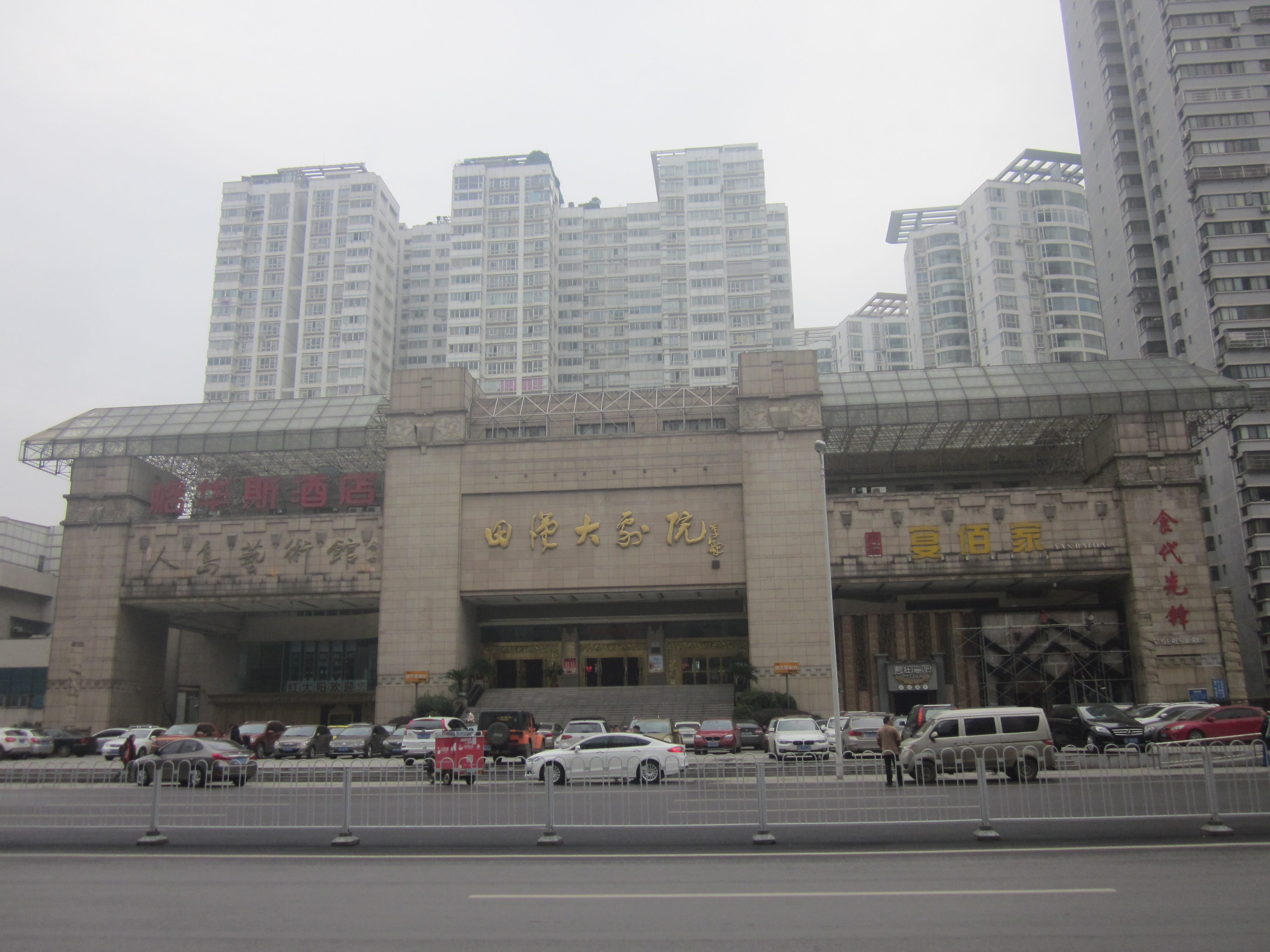 The Tianhan Grand Theatre is an opera house in Changsha, Hunan, China.